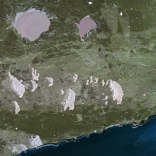 Valdes Peninsula by SPOT Satellite